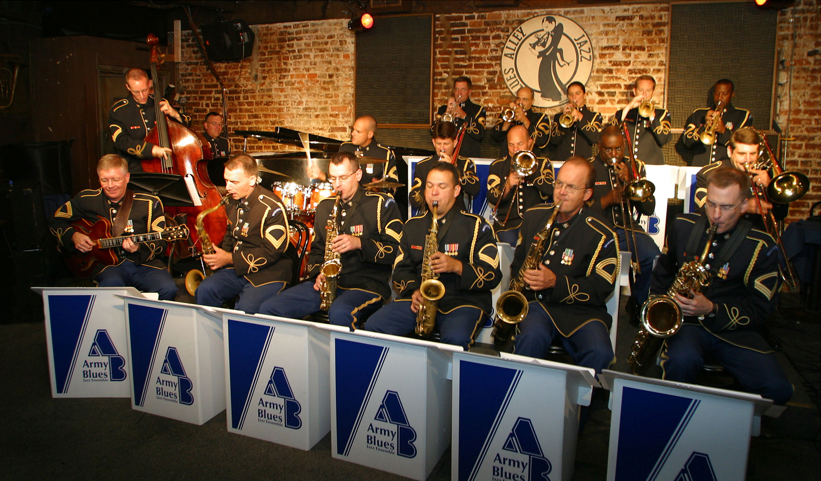 Official photo of the U.S. Army Blues, part of the U.S. Army Band